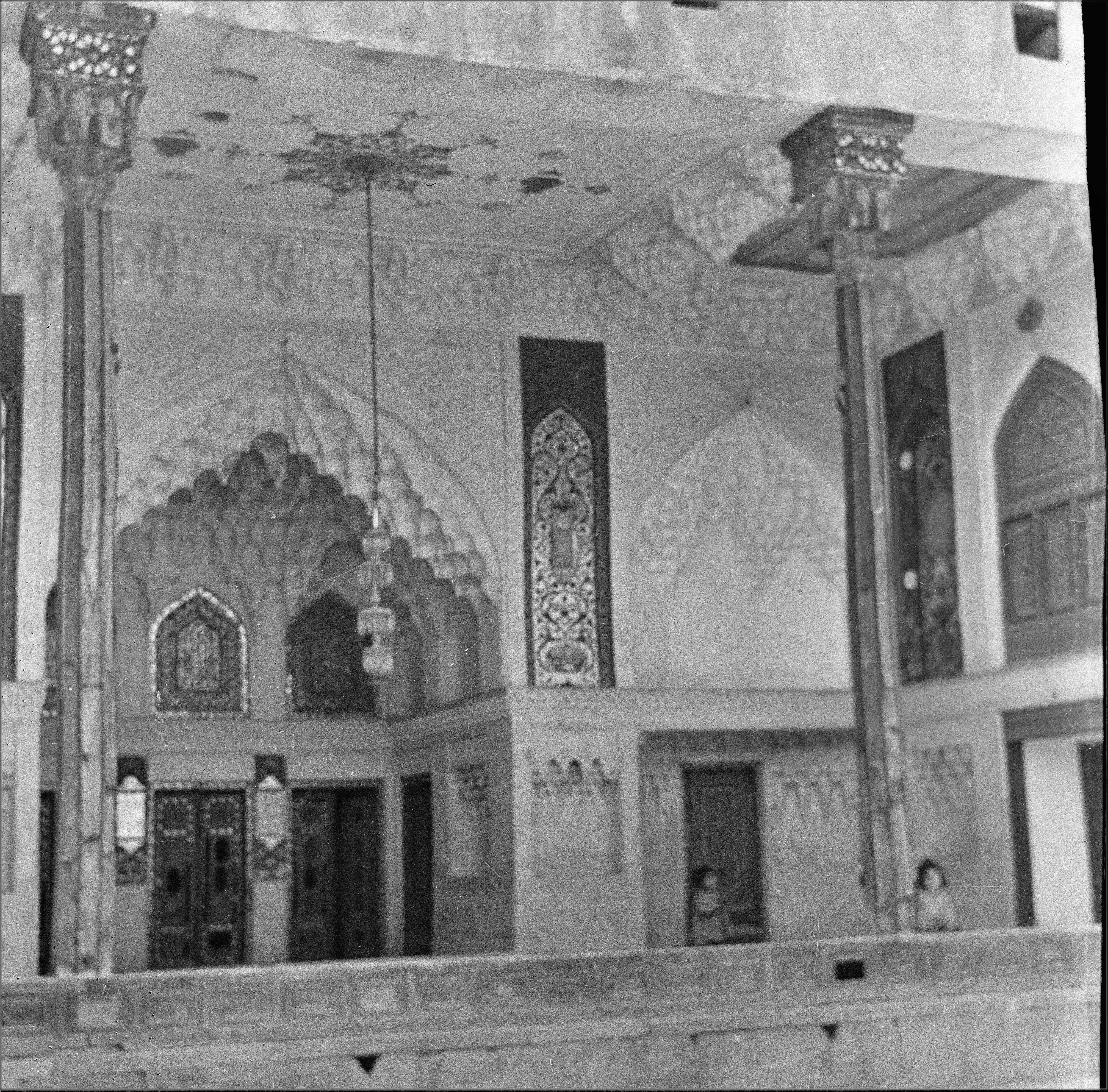 Historical House of Sheikholelslam of Esfahan in 1956 Photographed by Amir Hosein Sheikholeslami Esfahani Its negative film was scanned on 2017-09-04